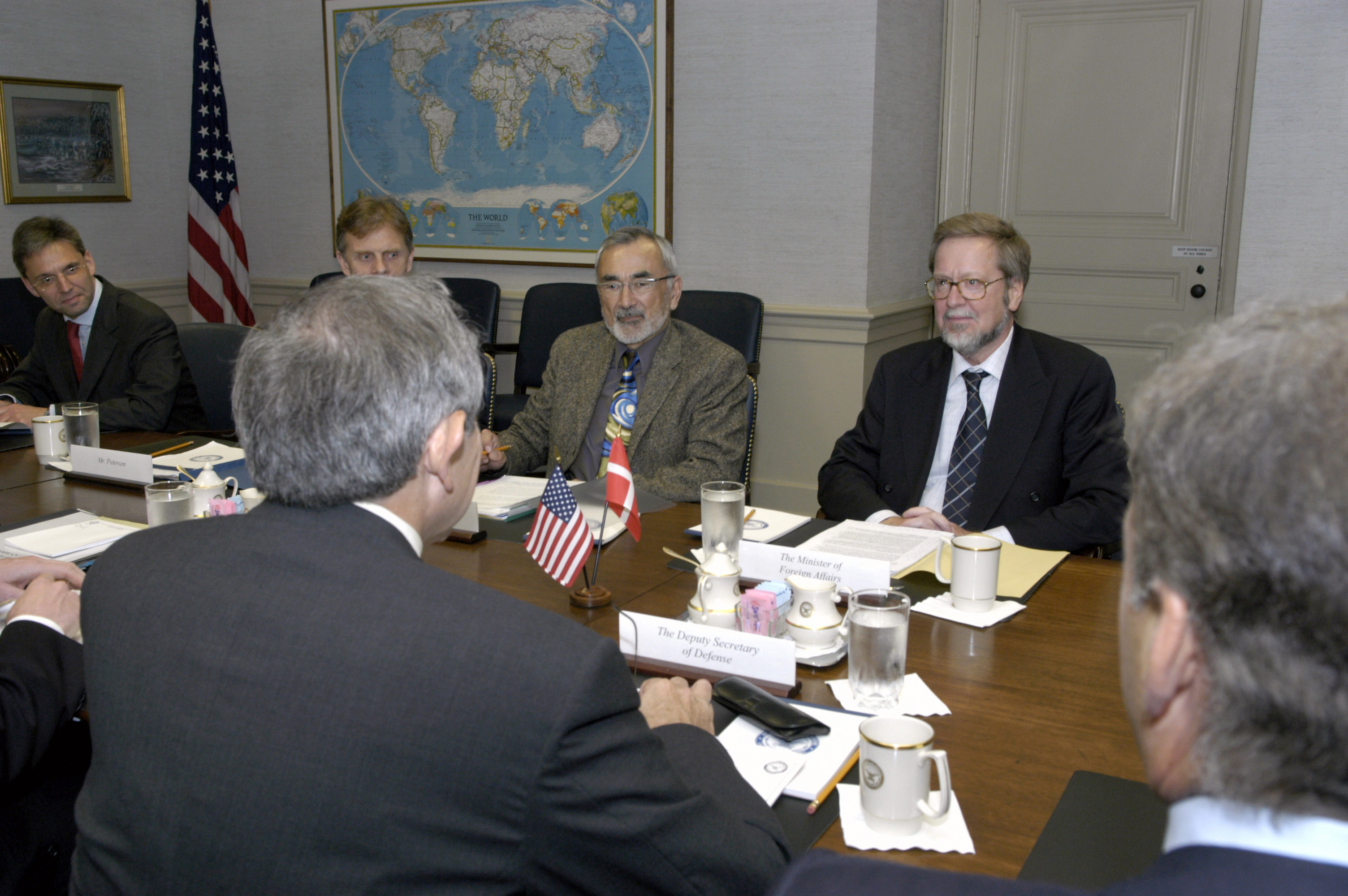 US Deputy Secretary of Defense Paul Wolfowitz and his staff meet with Denmark's Minister of Foreign Affairs Per Stig Møller (right) and Member of the Greenland Landsting Joseg Motzfeldt (middle) in the Pentagon to discuss defense issues of mutual interest.